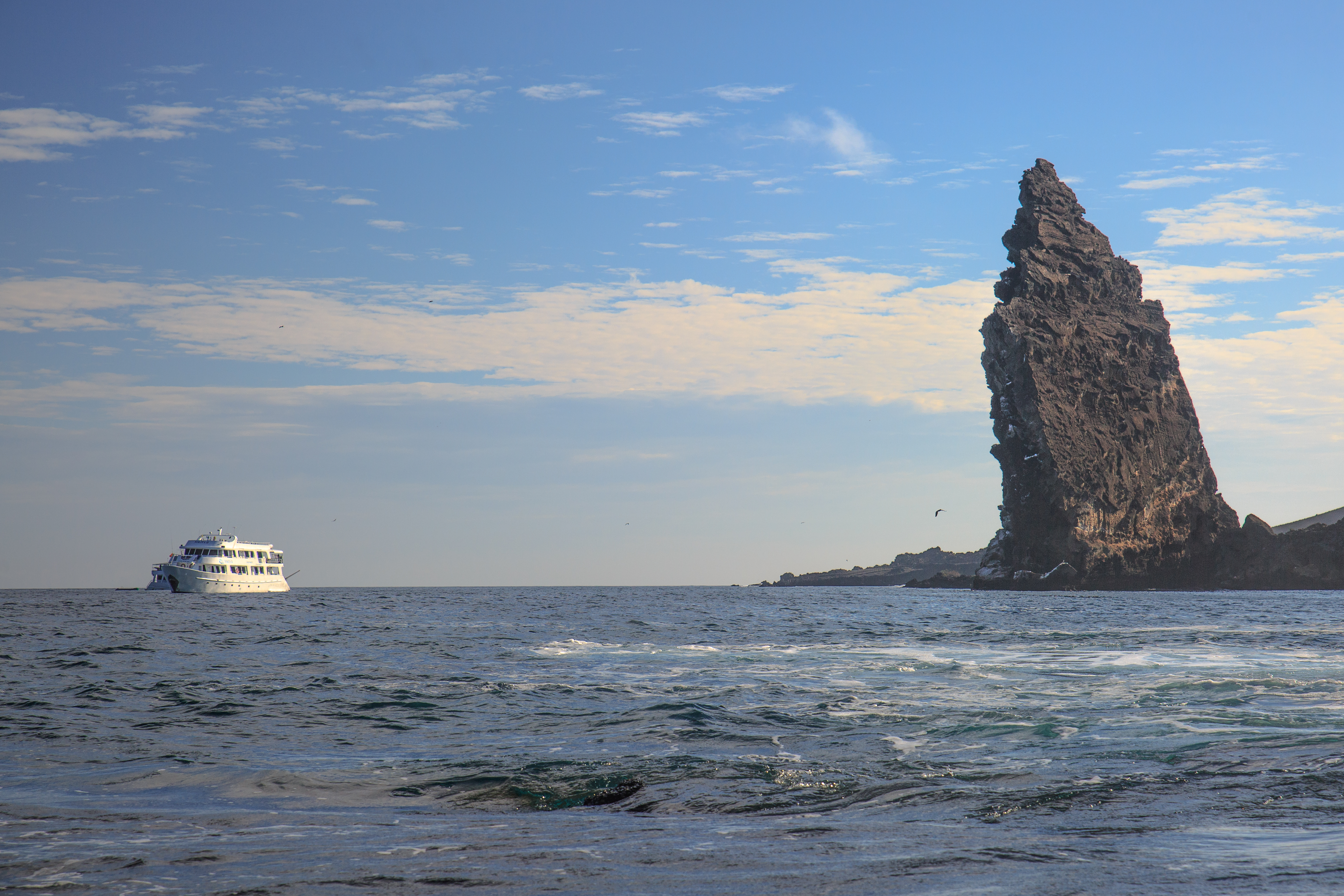 final land excursion to Isla Bartomome and the lava beds on the E coast of Isla San Salvadore...iconic Pinnacle rock on Isla Bartolome...